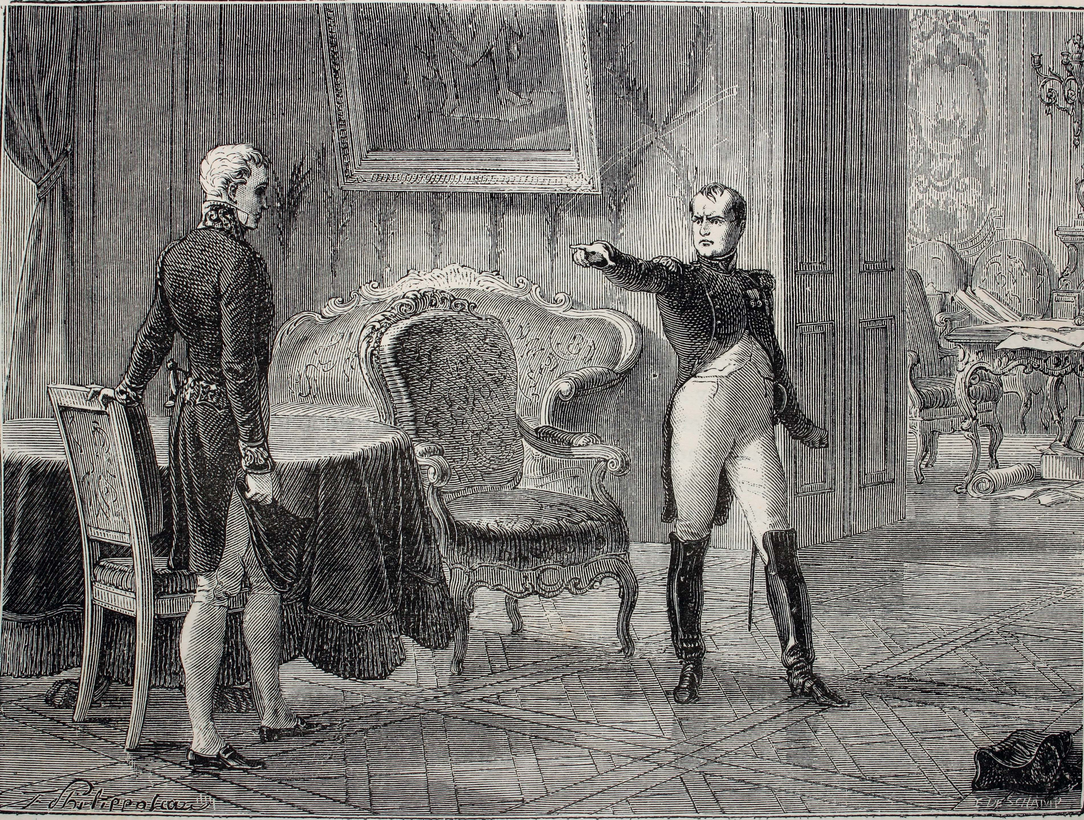 The famous meeting between French Emperor Napoleon I and Austrian diplomat Marquess Klemens von Metternich in the Marcolini Palace in Dresden on 26 June 1813. On behalf of Britain, Russia and Prussia (and Austria), Metternich demanded that Napoleon give up most of his conquests in Europe in order to have peace; otherwise, the War of the Sixth Coalition would continue and Austria would join this anti-French Coalition. Napoleon, who had recently defeated the Russians and Prussians in the Battles of Lützen and Bautzen (though at a considerable cost to his own army as well, which also still hadn't recovered from the disastrous Russian campaign of 1812), was outraged by this proposal, reportedly kicking around his hat as he angrily responded to Metternich.